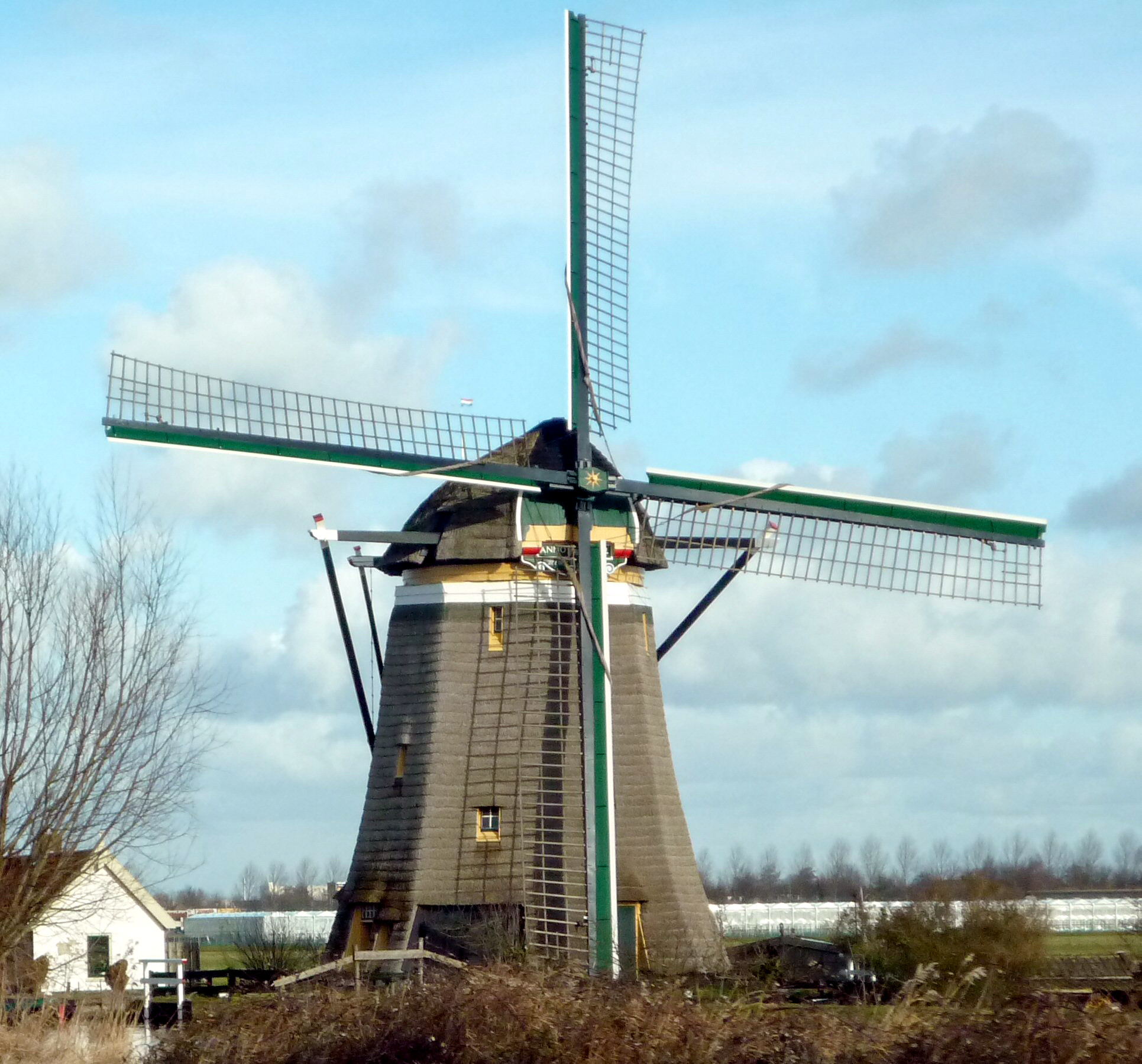 Zelden van Passe windmill, Zoeterwoude-Dorp, Netherlands used for polder drainage. The windmill dates from 1642 and since 1982 has been in the care of the Rijnlandse Molenstichting (Rhineland Windmill Foundation).